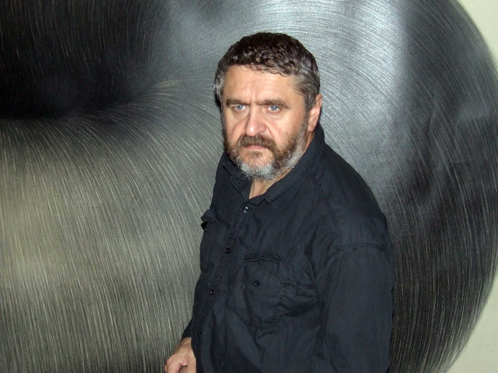 Portrait of the Czech painter Jiří Kornatovský